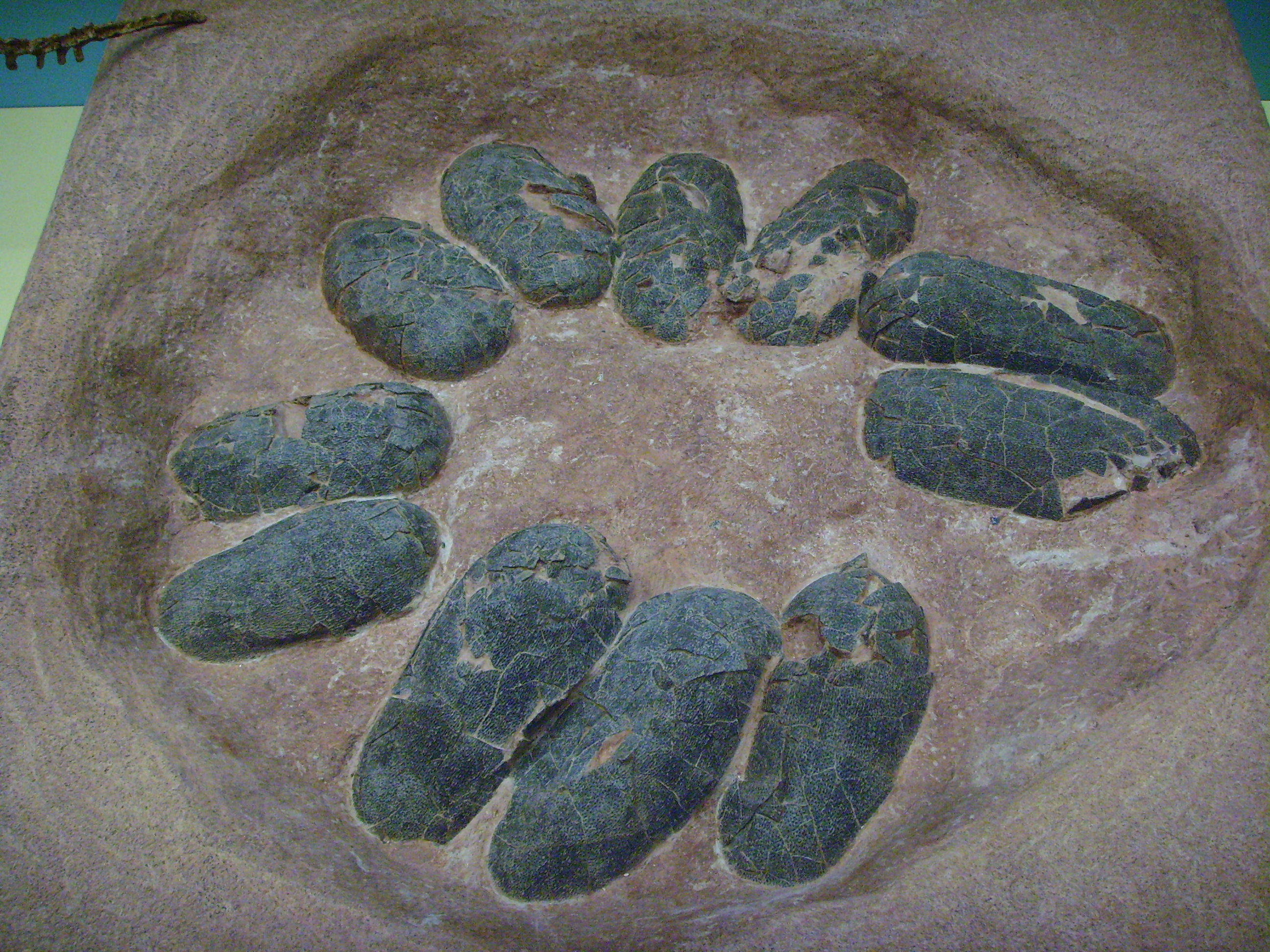 The discovery of embryos and bones of adult specimen of Oviraptor above such nests substantiate that these eggs are definitely eggs of Oviraptor.